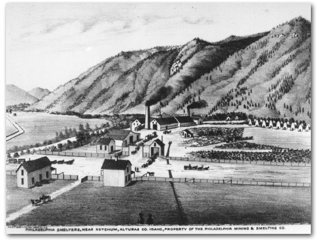 Philadelphia Smelters, Hailey, 1884